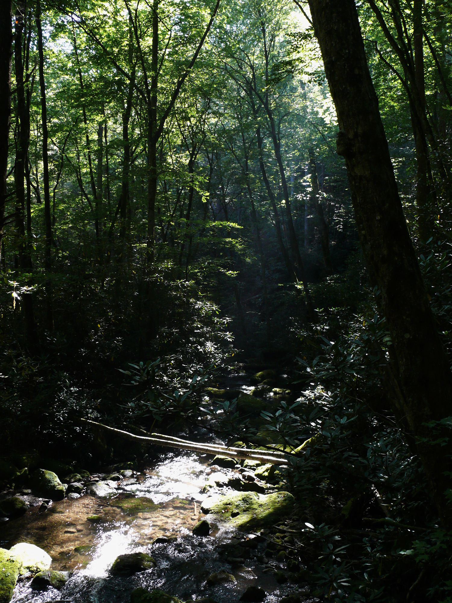 Sunlight penetrates the dense forest canopy over Little Santeetlah Creek in the Joyce Kilmer Memorial Forest. Part of the Nantahala National Forest and the Slickrock Wilderness, the 3840-acre memorial area is one of the few remaining examples of old growth hardwood forest in the eastern United States. The forest is home to many poplar, beech, sycamore and oak trees, some of which exceed 20 feet in circumference, and are thought to be over 400 years old. Photo taken with a Panasonic Lumix DMC-FZ50 in Graham County, NC, USA.